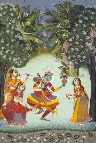 Vasant Ragini, Ragamala, Rajput, Kota, Rajasthan. 1770.